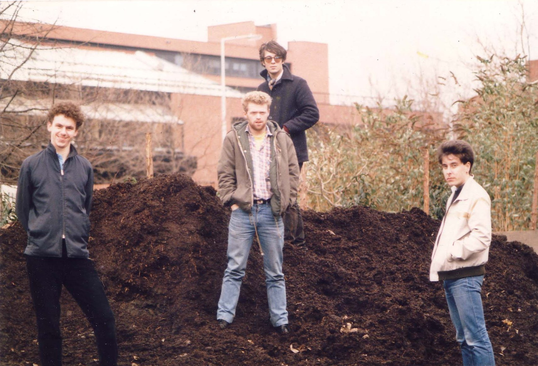 Members of the group Soil, from left to right Lee Bennett, Kevin Siddall, Matthew Karas and Gary Farrell